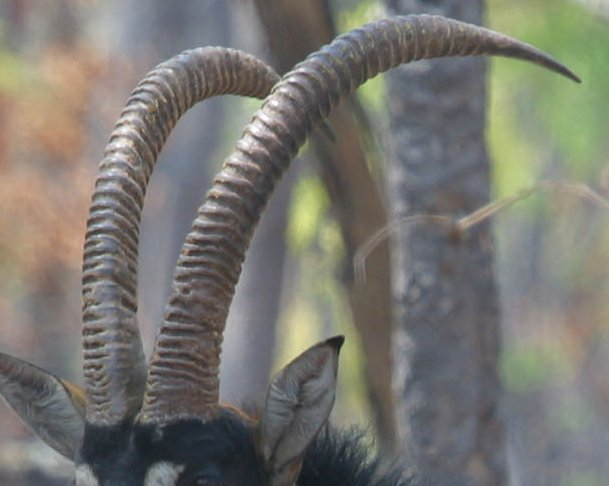 Horns of the Sable Antelope (Bull), photo taken and submitted by Paul Maritz (paulmaz). Photo taken near Kafue River in Zambia, 2004